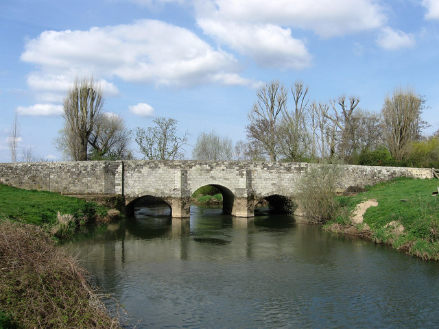 Fittleworth Bridge over the Rother Navigation, West Sussex